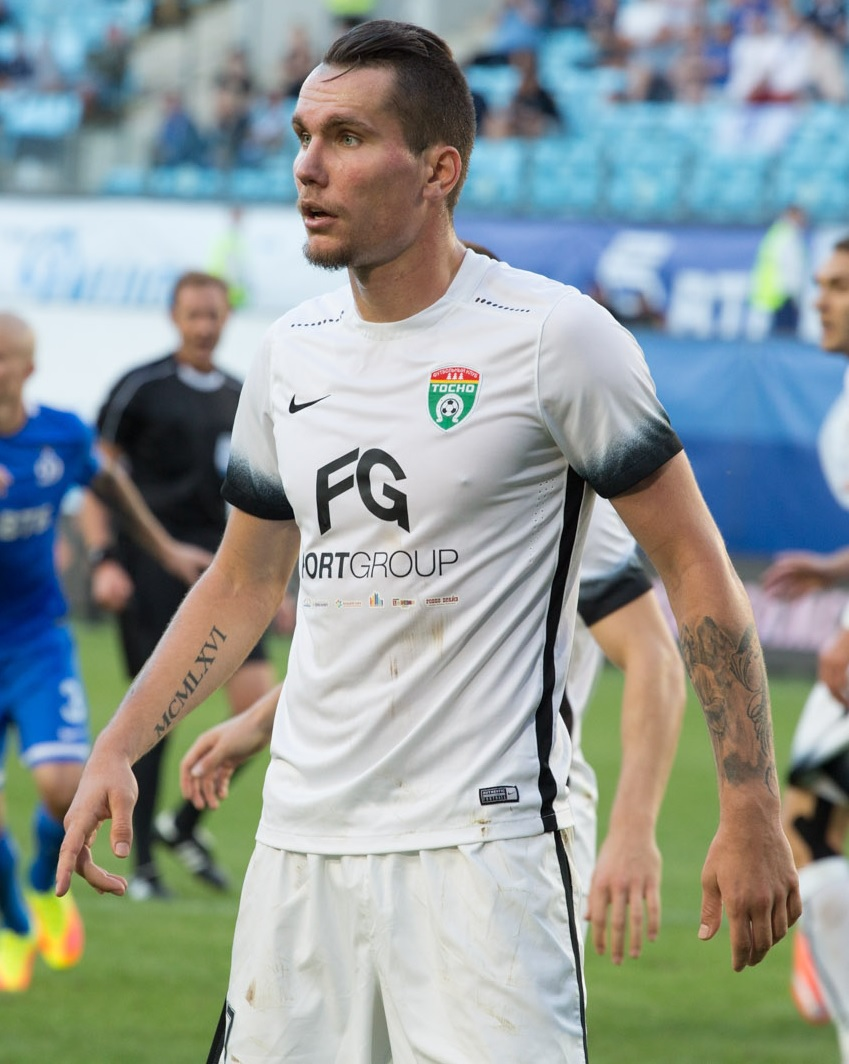 Anton Zabolotny playing for FC Tosno against FC Dynamo Moscow.